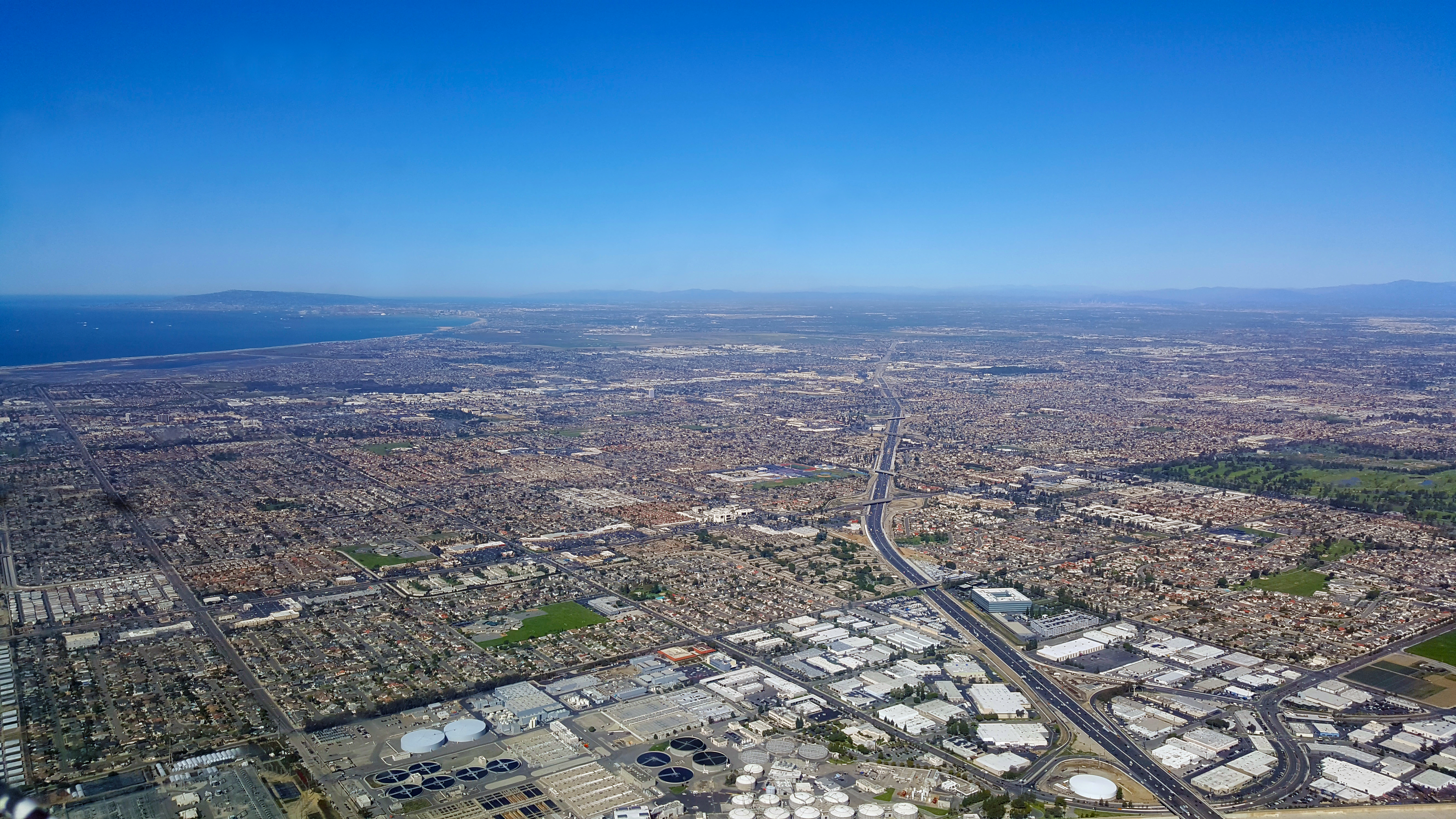 Huntington Beach and Fountain Valley from over Cost Mesa by Don Ramey Logan